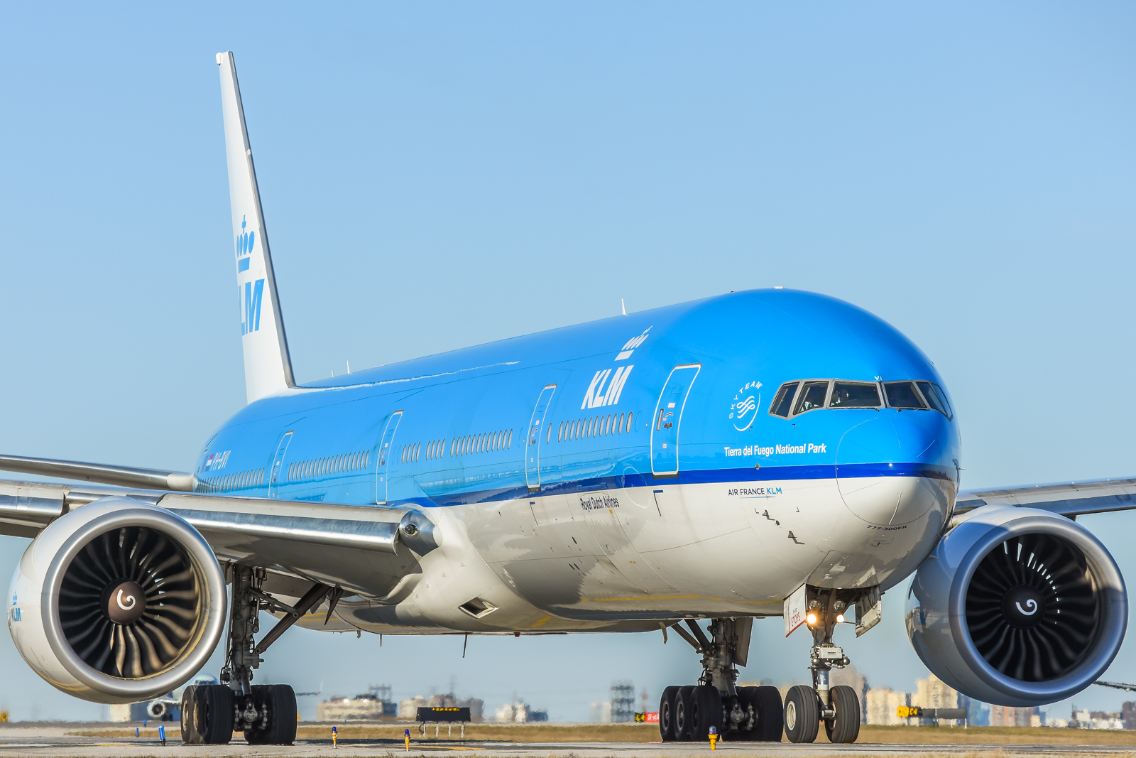 KLM Boeing B777-300ER at Pearson International Airport